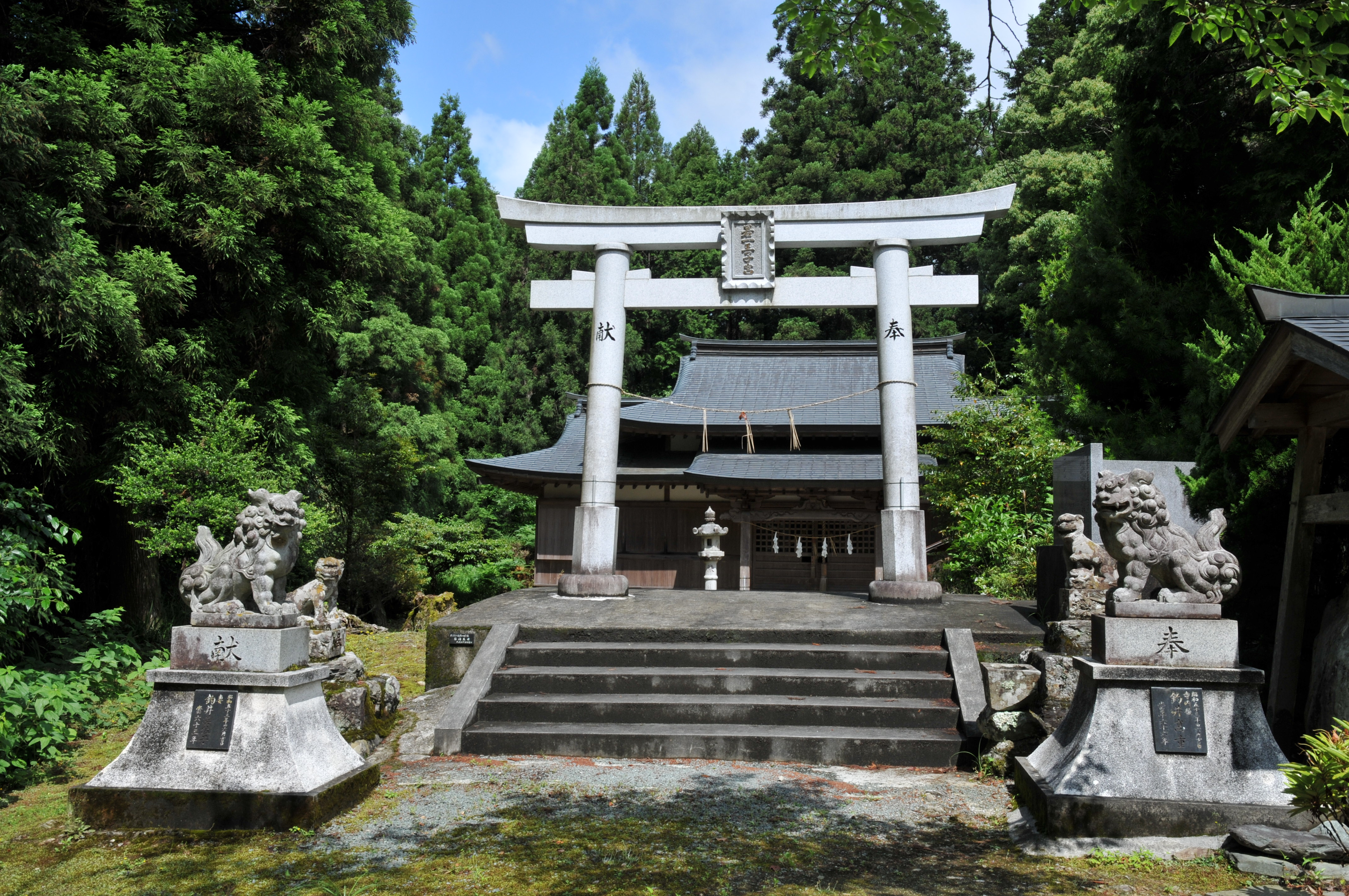 Nyakuichiōji-gu in Buraku-ji